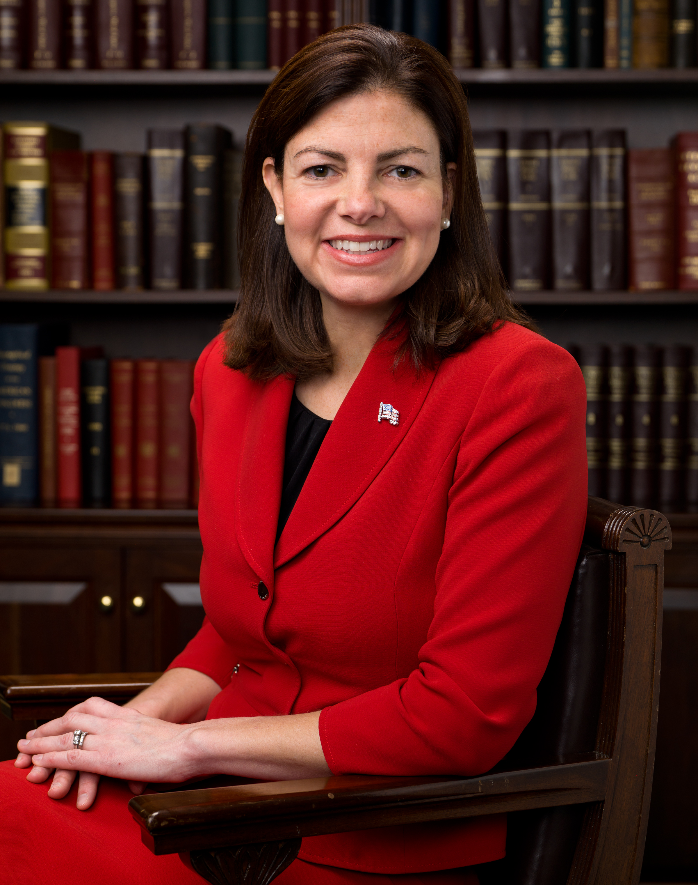 Official portrait of U.S. Senator Kelly Ayotte, taken in February 2011.